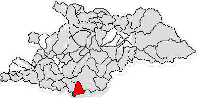 Map of Coroieni commune in Maramureş